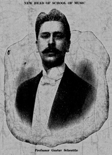 American music educator of German origin Gustav Schoettle (b. 1873) as portrayed in "The Daily Iowan", Sept. 16, 1910 in the article about his appointment as the Head of School of Music of Iowa University